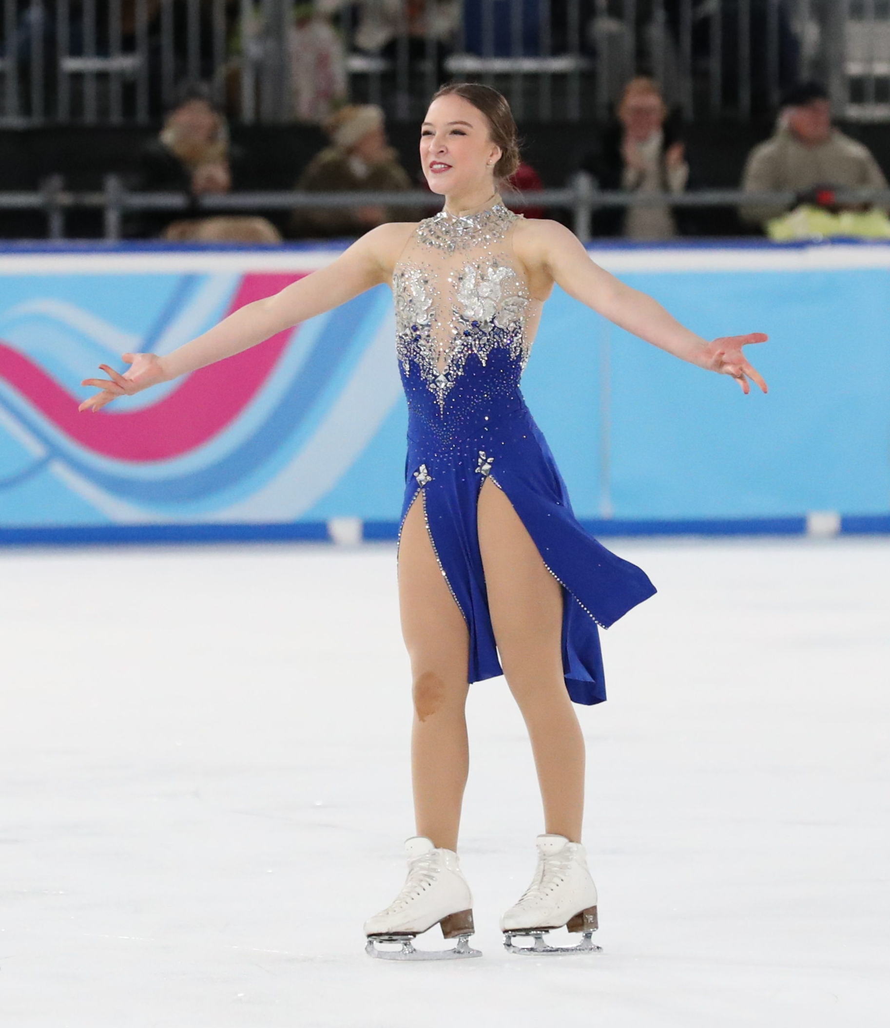 Ice Dance Rhythm Dance at the 2020 Winter Youth Olympics in Lausanne